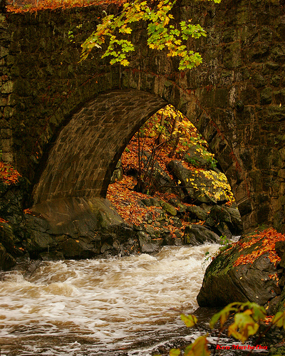 Footbridge in Grace Lord Park in Boonton, New Jersey